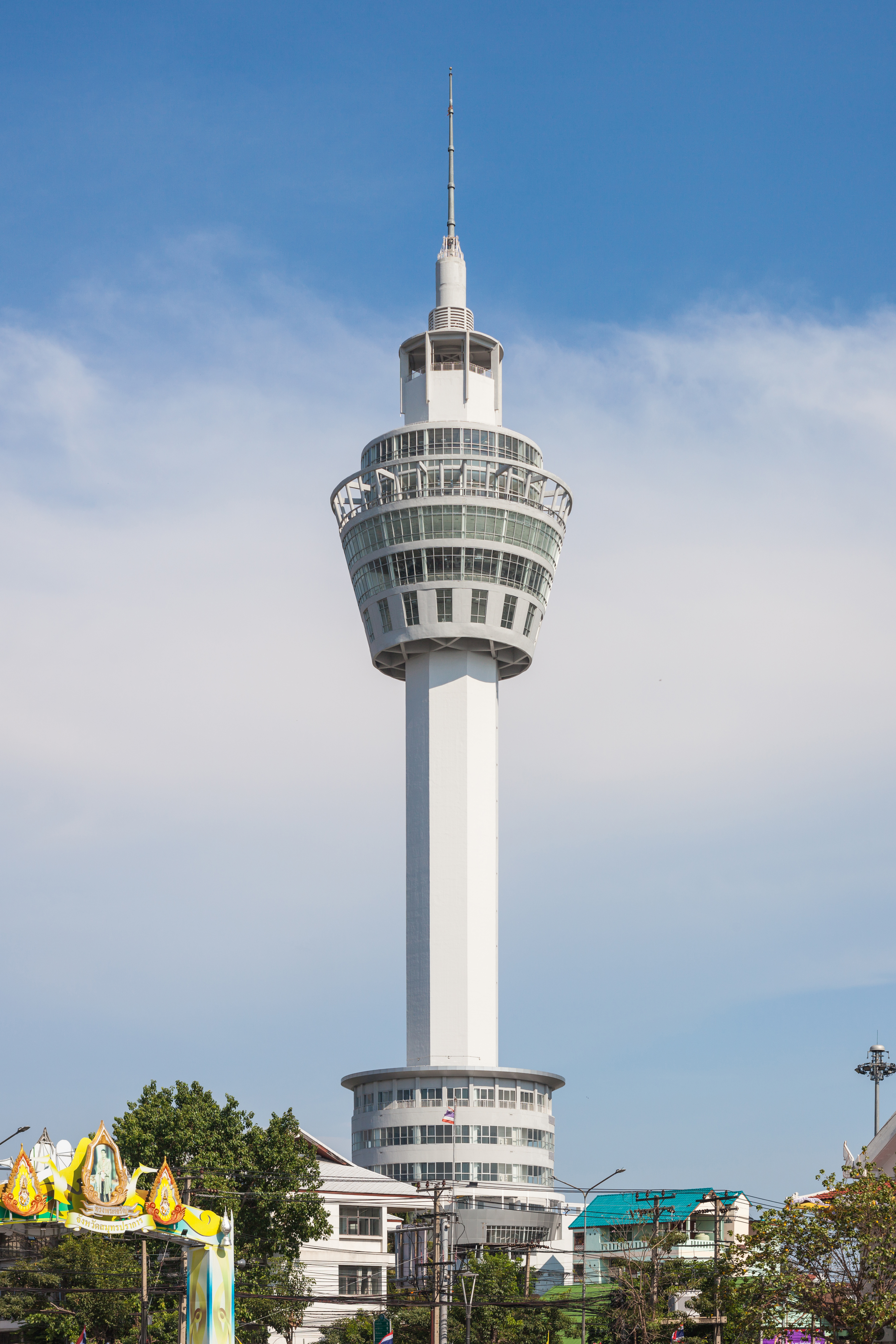 Gulf of Thailand Learning Tower, Samut Prakan Province, Thailand.